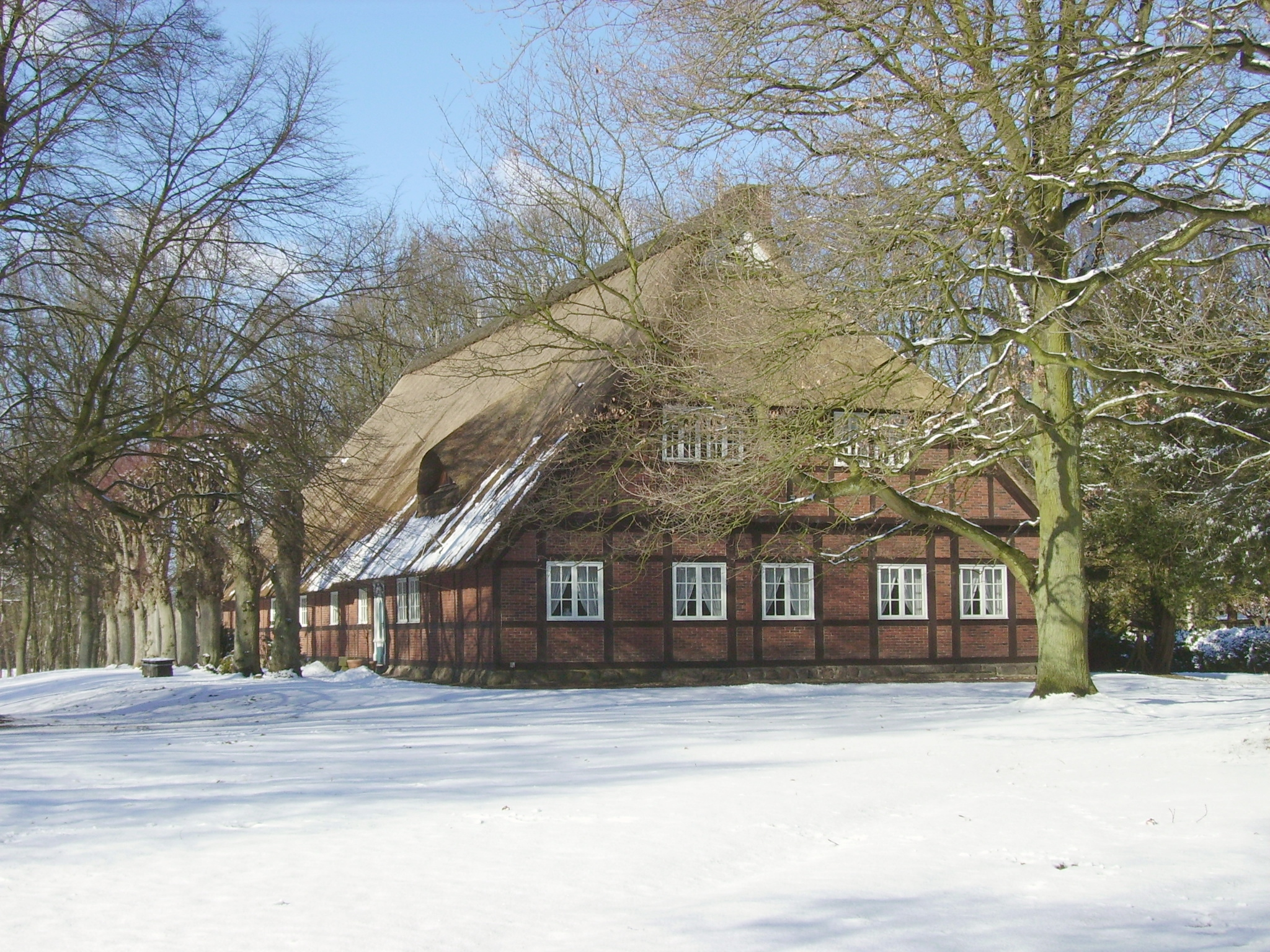 View of a North German farm house in the park of Speckenbüttel in Bremerhaven